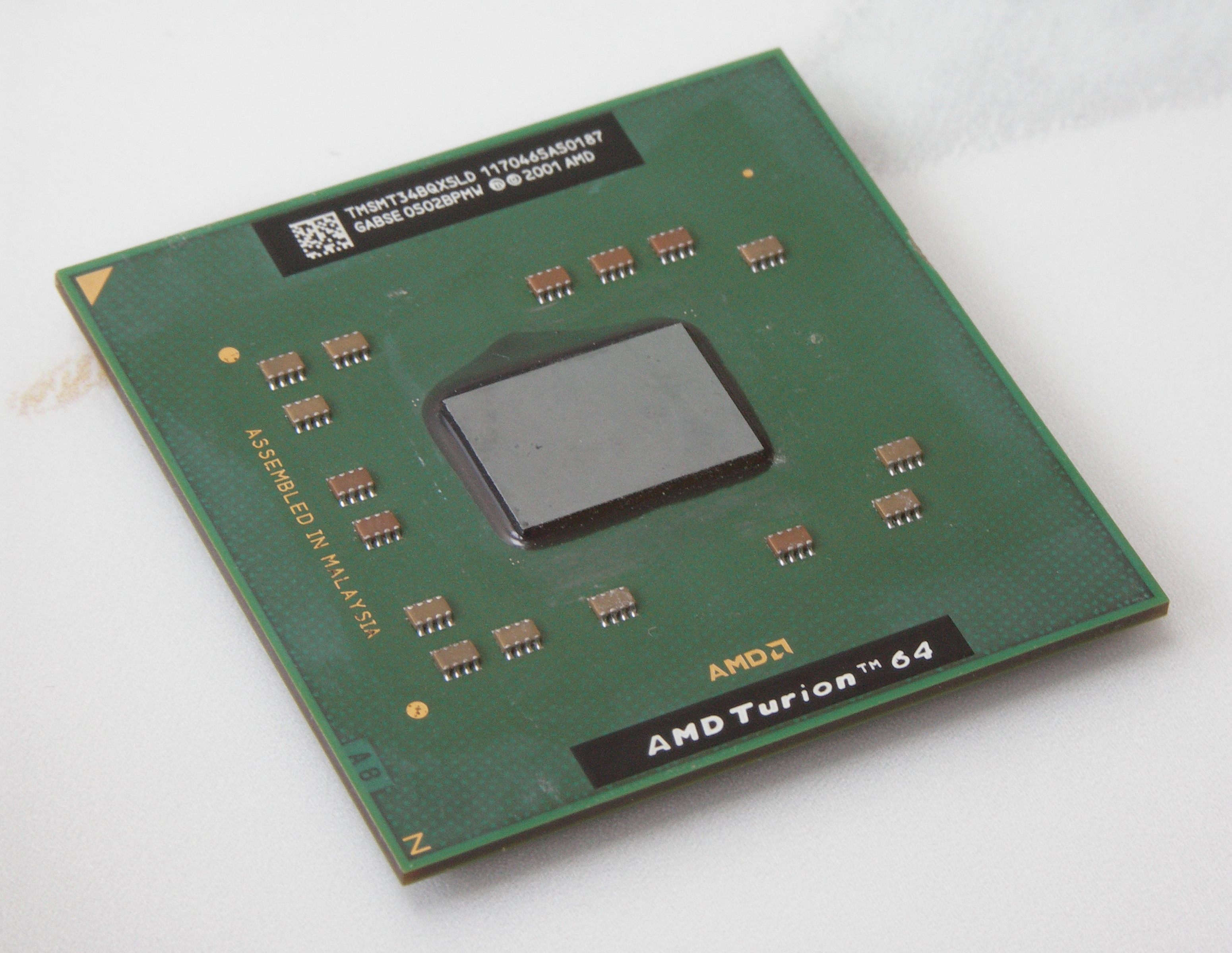 notebook processor Turion 64 from the manufacturer AMD with Lancaster core (Rev E5) for socket 754, model MT-34 – top